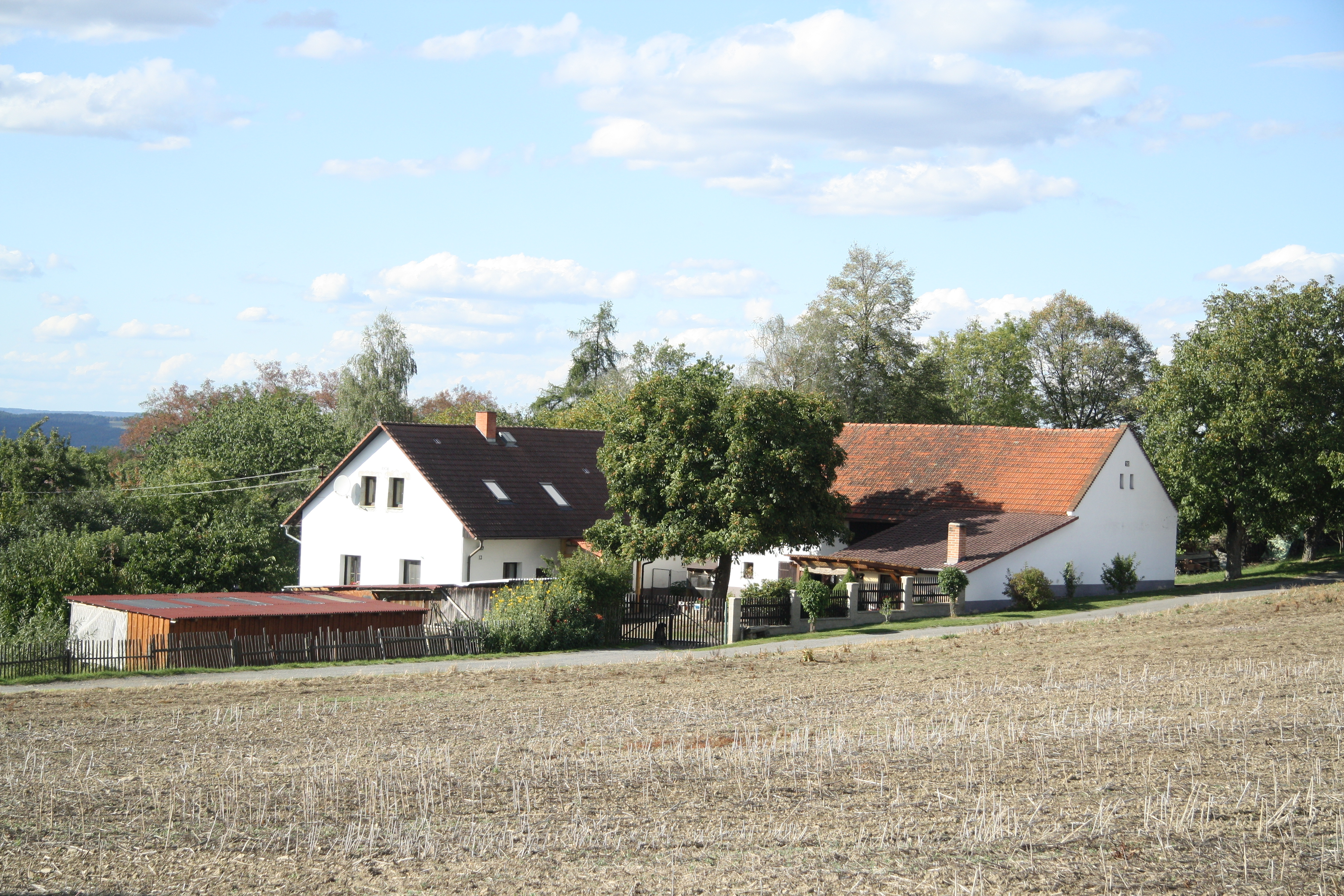 Houses in Paseky, Osečany, Příbram District.